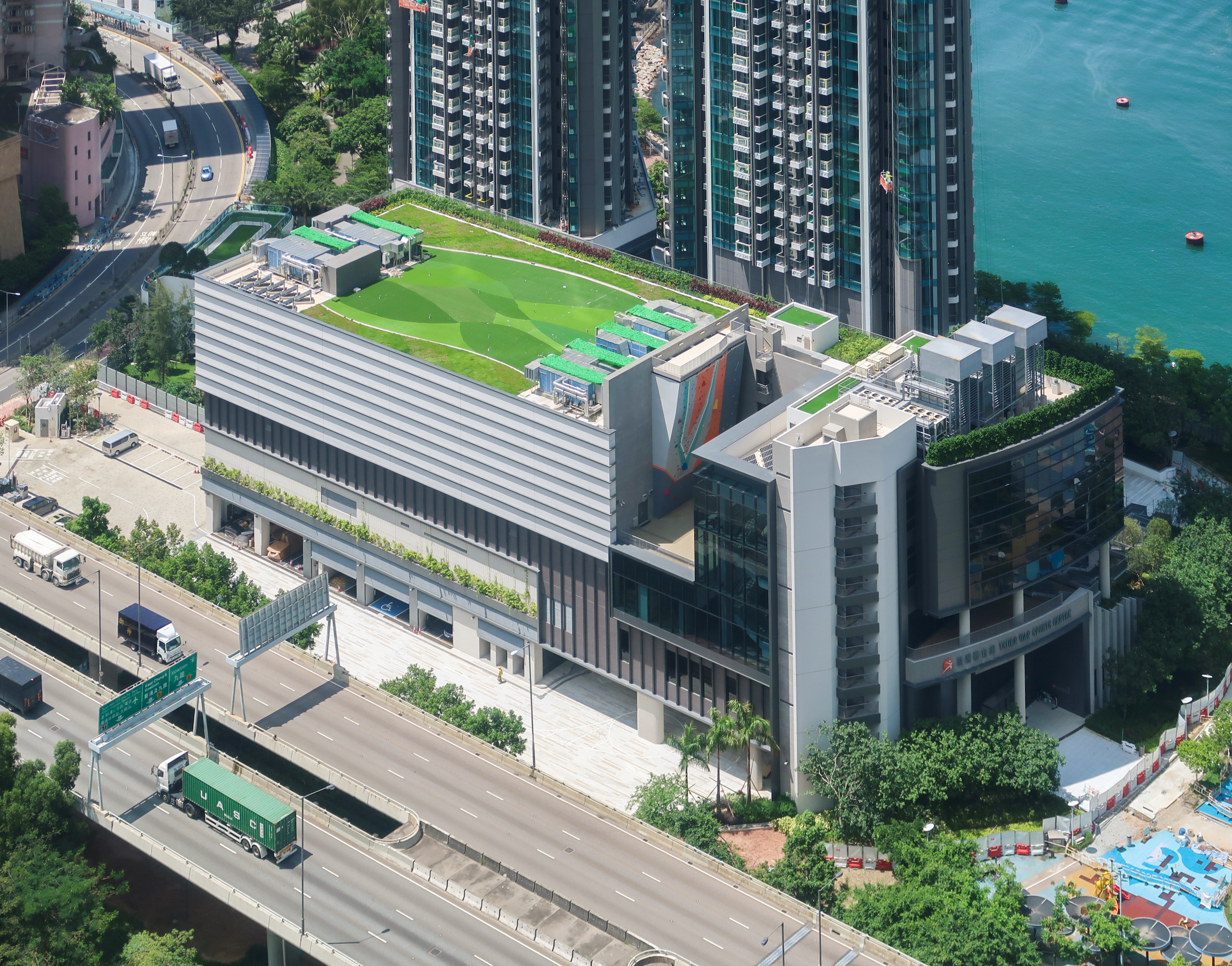 Tsuen Wan Sports Centre